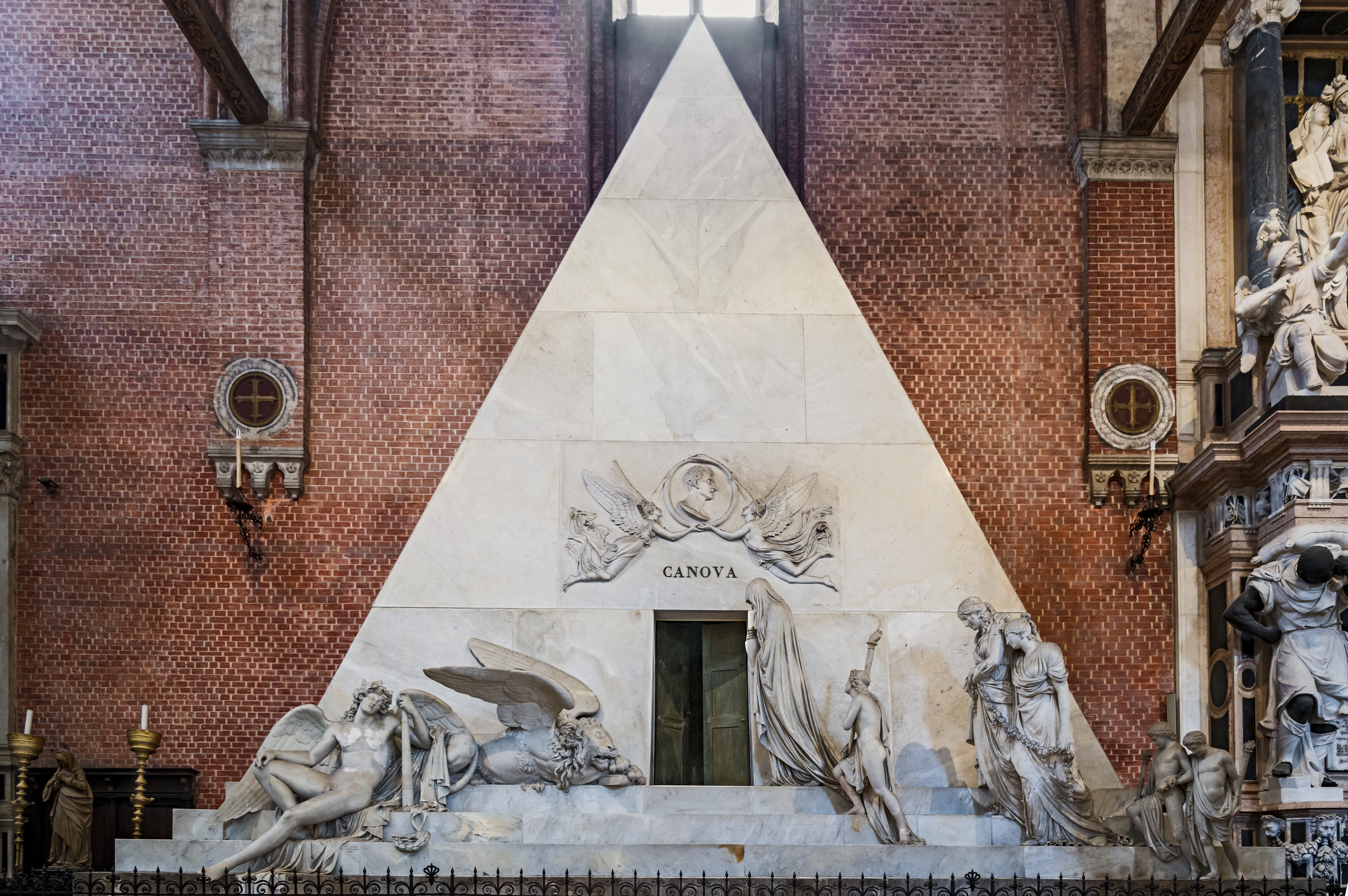 The Basilica di Santa Maria Gloriosa dei Frari, monument to Canova.In 1794 Antonio Canova designed and built a model for the tomb of Titian, but there were many difficulties in raising the necessary funds for the construction, so that in 1822, the year of Canova's death, it was still in draft form. Canova was buried in Possagno, his native country, the Academy of Fine Arts of Venice decided to build a monument to preserve the porphyry urn containing the heart of the artist; the work was undertaken by six of his students and completed in 1827.